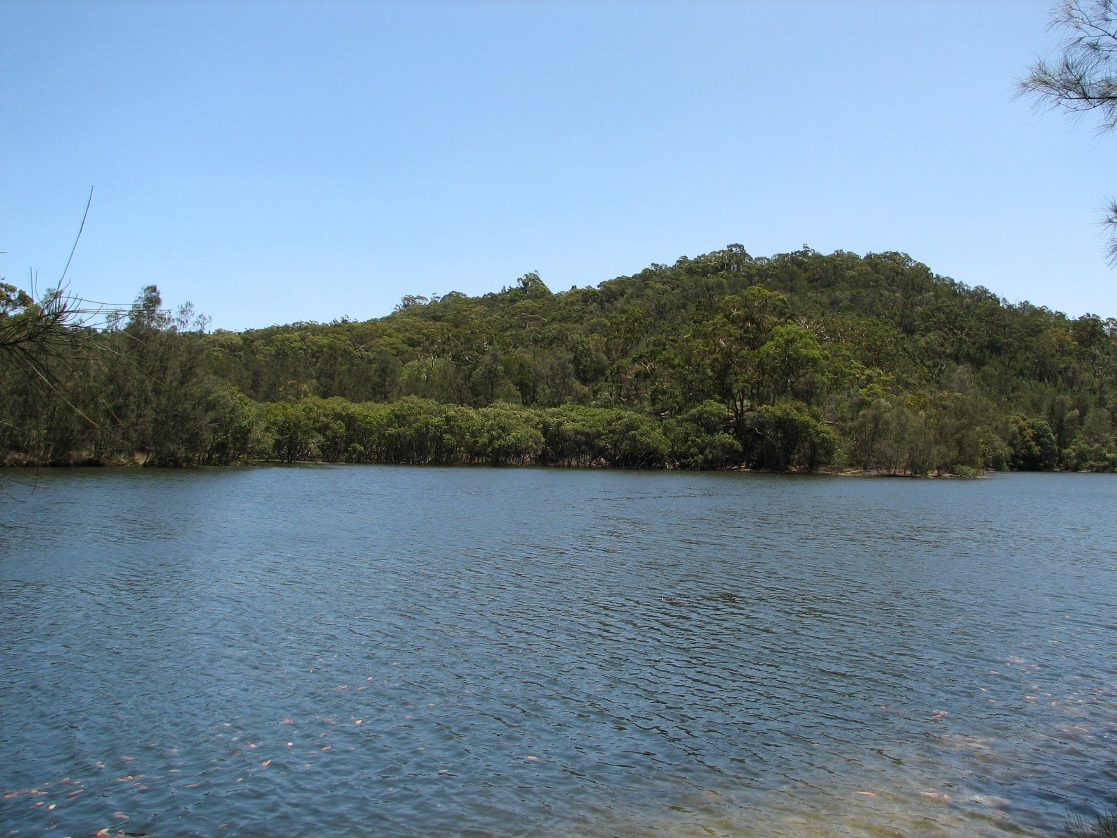 Garigal National Park, Sydney, NSW, Australia. View of Middle Harbour not far upstream from Roseville Bridge. Taken by myself on the 26 December 2006.